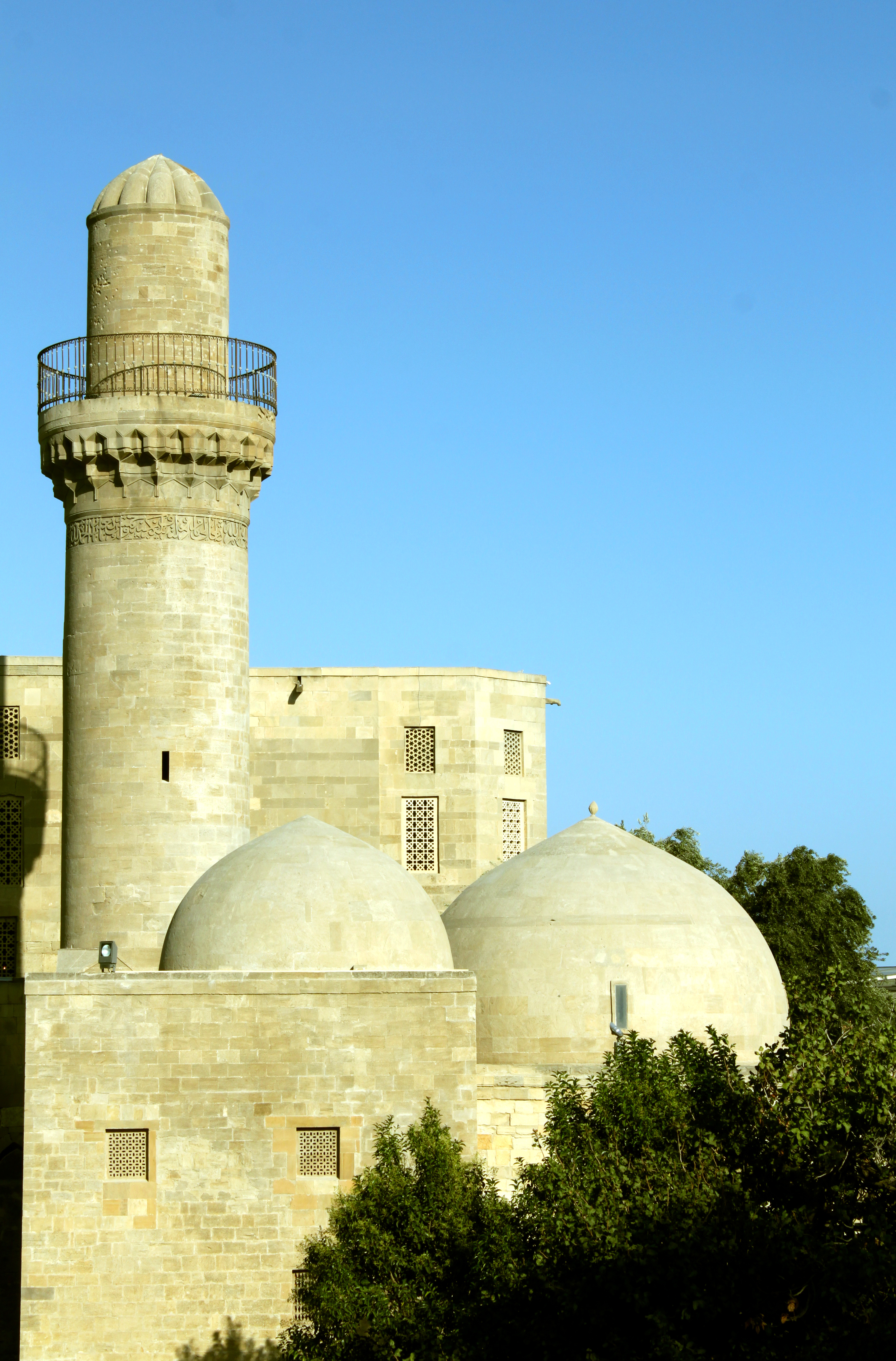 Shirvanshahs Palace Mosque common